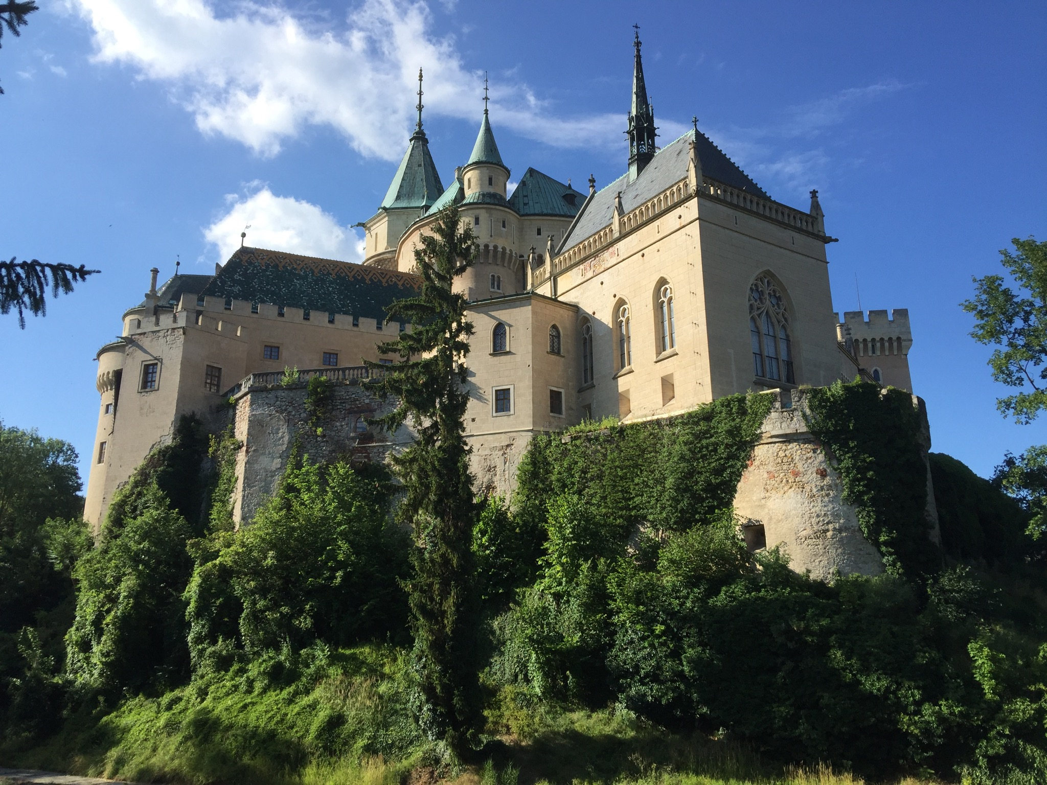 Bojnice CastleSlovenčina: Bojnický zámok